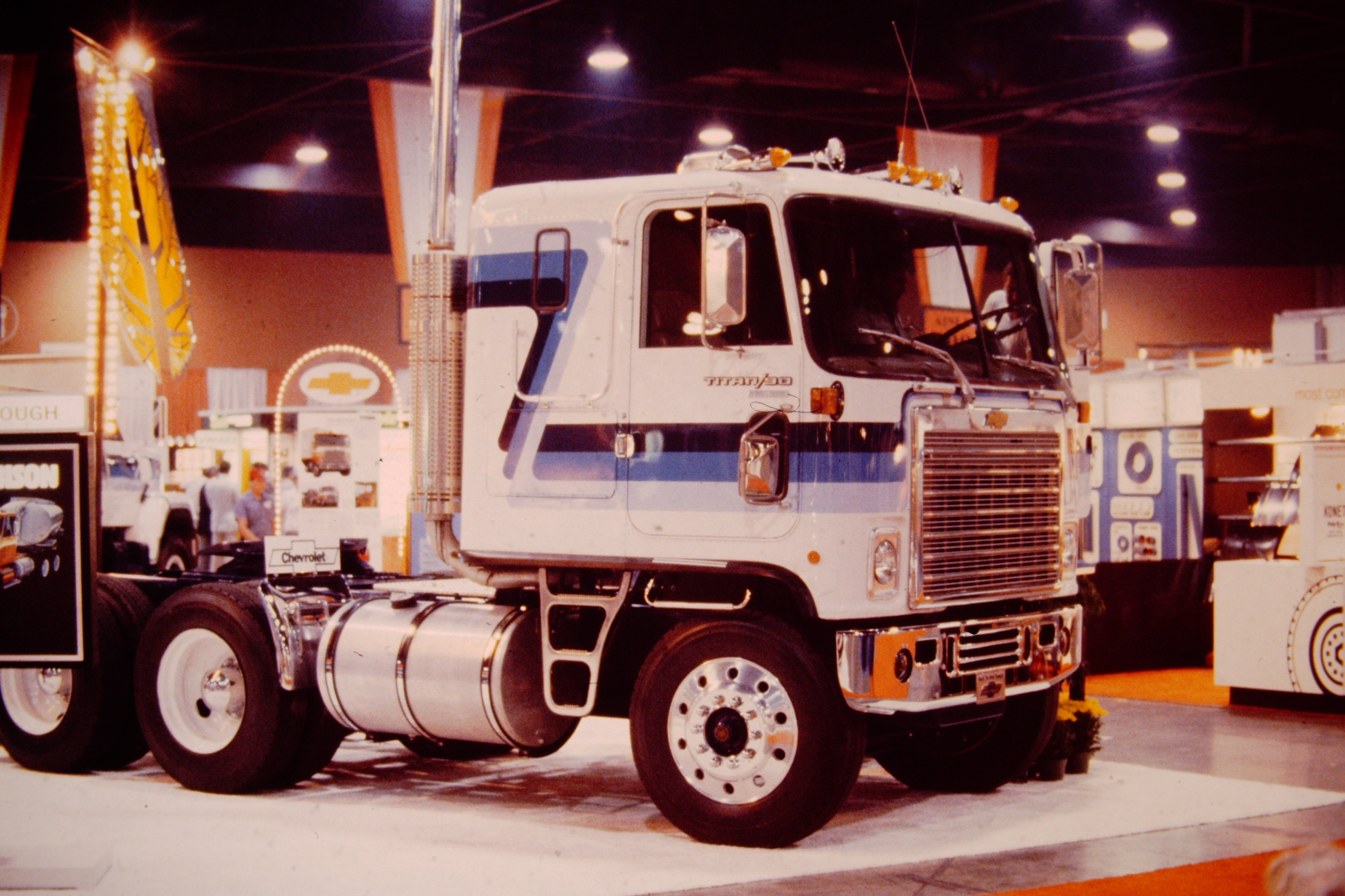 Chevrolet Titan/90 Heavy Duty Truck 1979 Model Year photographed at the 1979 truck show in Atlanta's World Congress Center